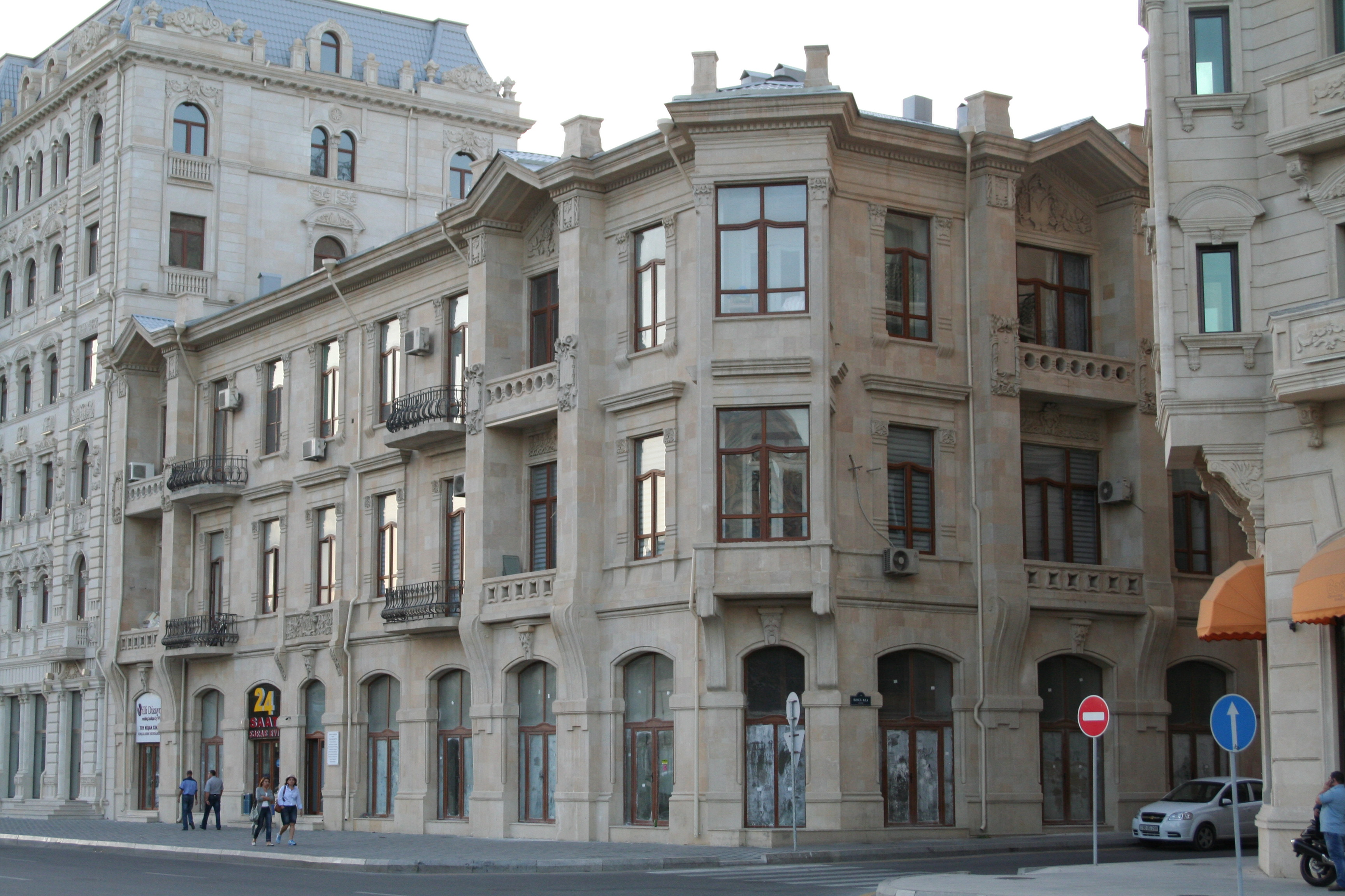 Building on Fizuli Street 39